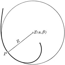 Center of curvature for point P.